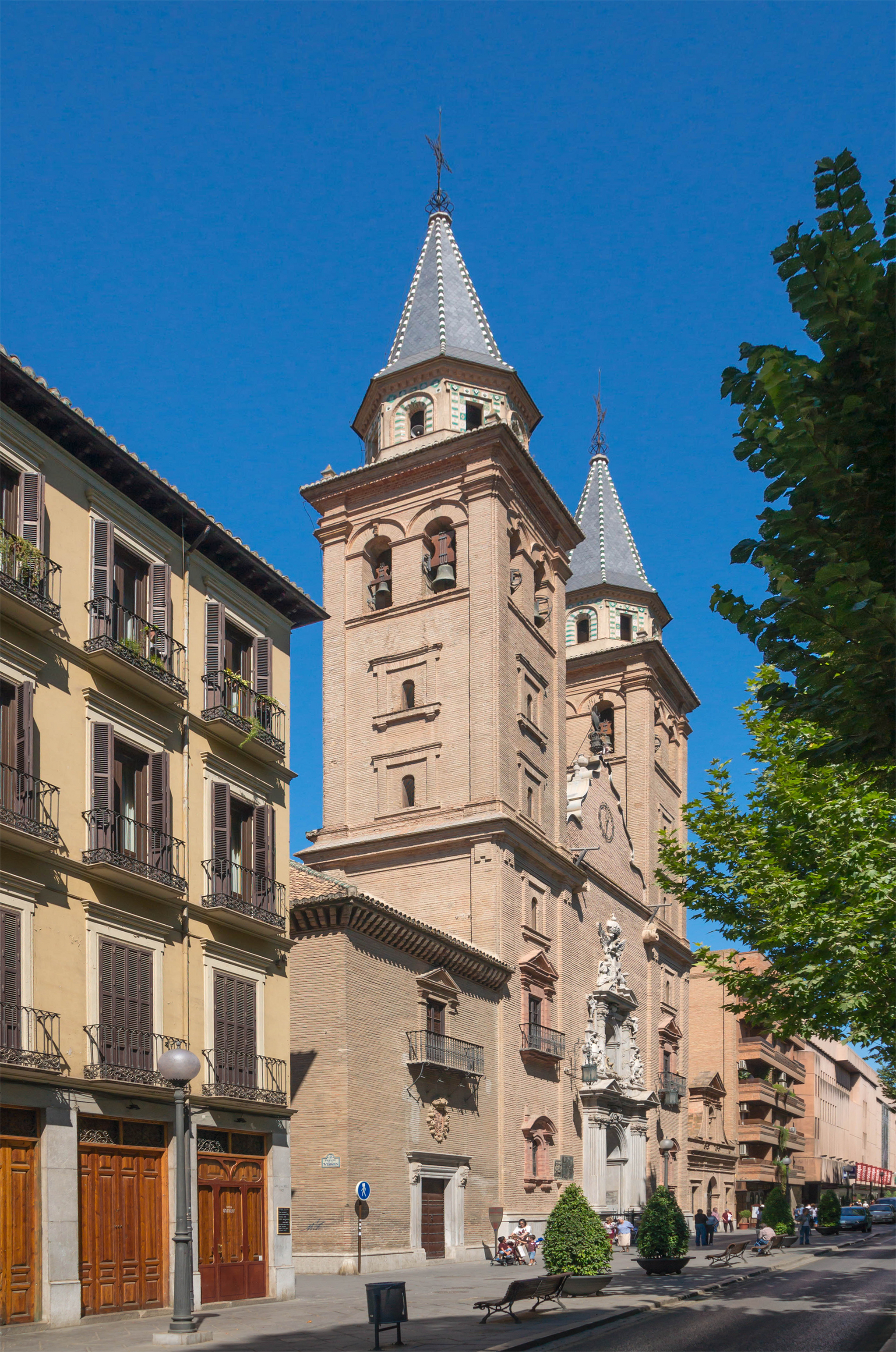 Facade of the basilica Nuestra Señora de las Angustias, Granada, Spain.